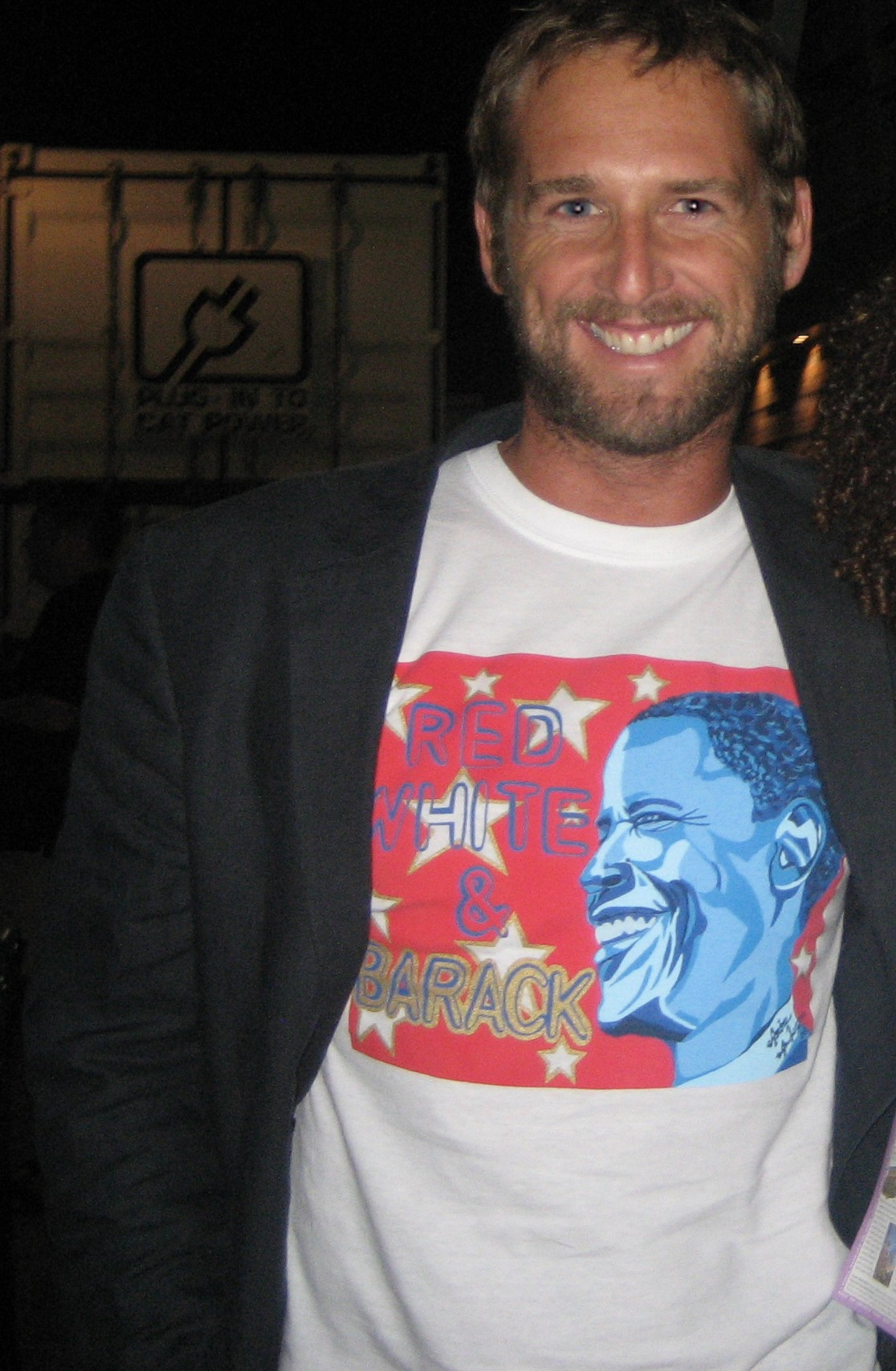 josh lucas and ambre anderson at the democratic national convention in denver